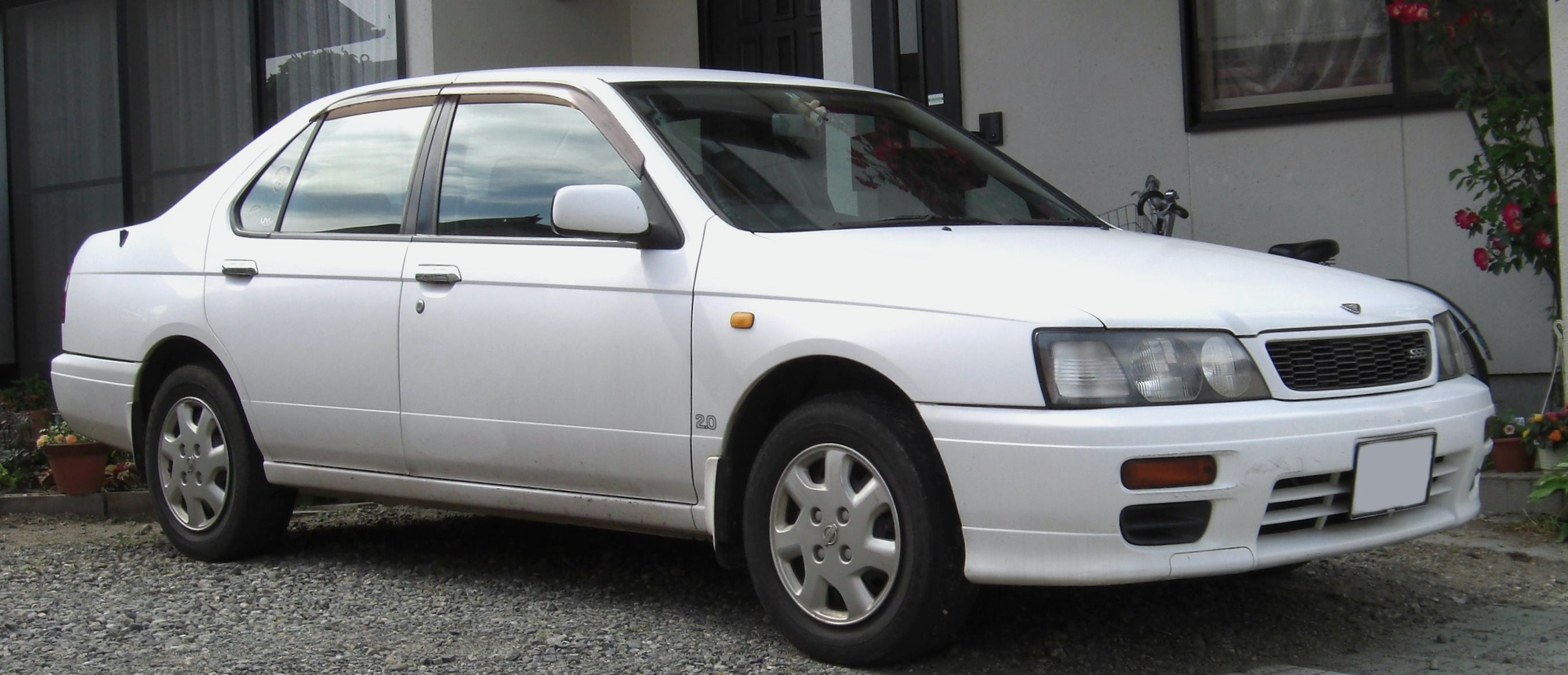 NISSAN BLUEBIRD